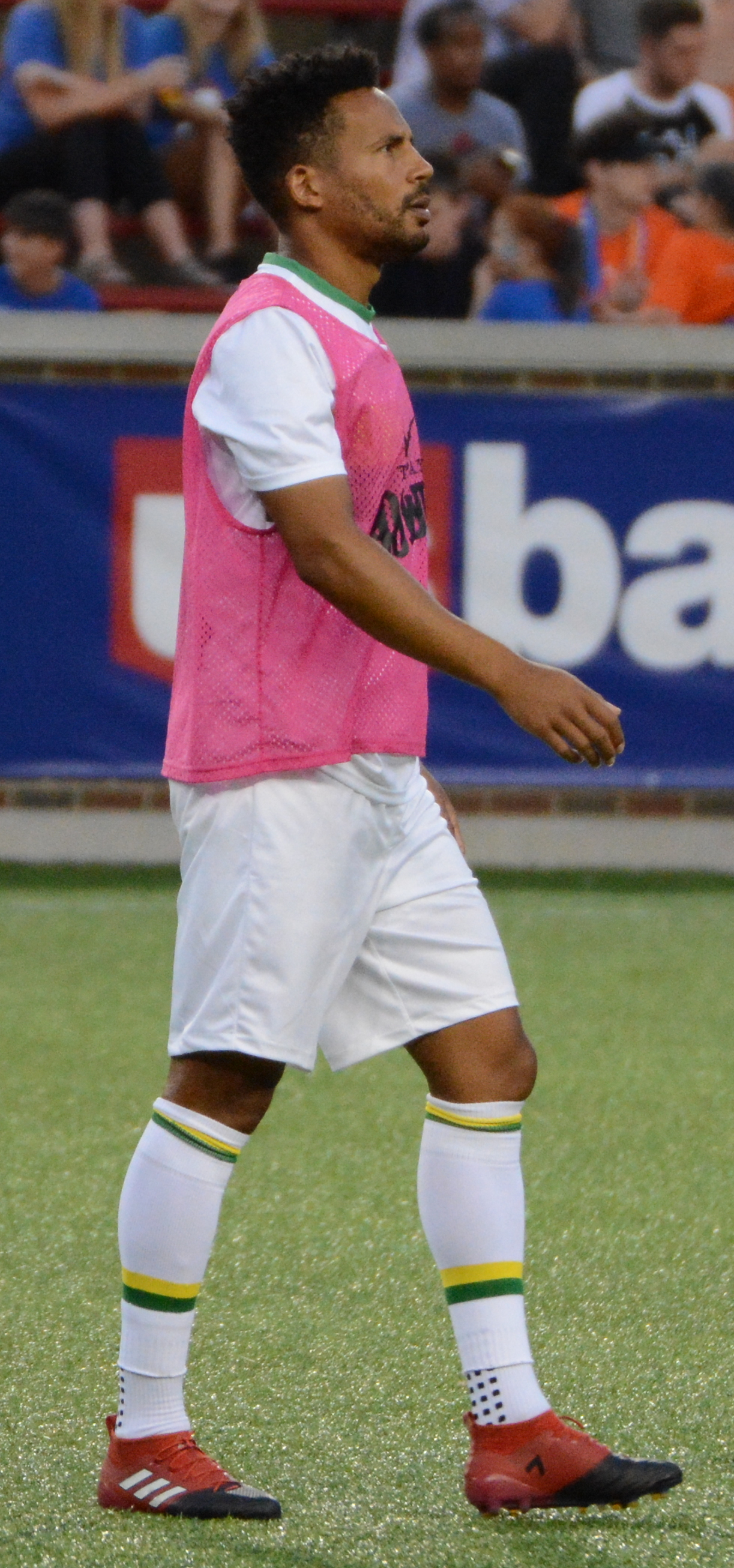 Tamika Mkandawire Taken during a match between FC Cincinnati and Tampa Bay Rowdies at Nippert Stadium in Cincinnati, USA on April 19, 2017.